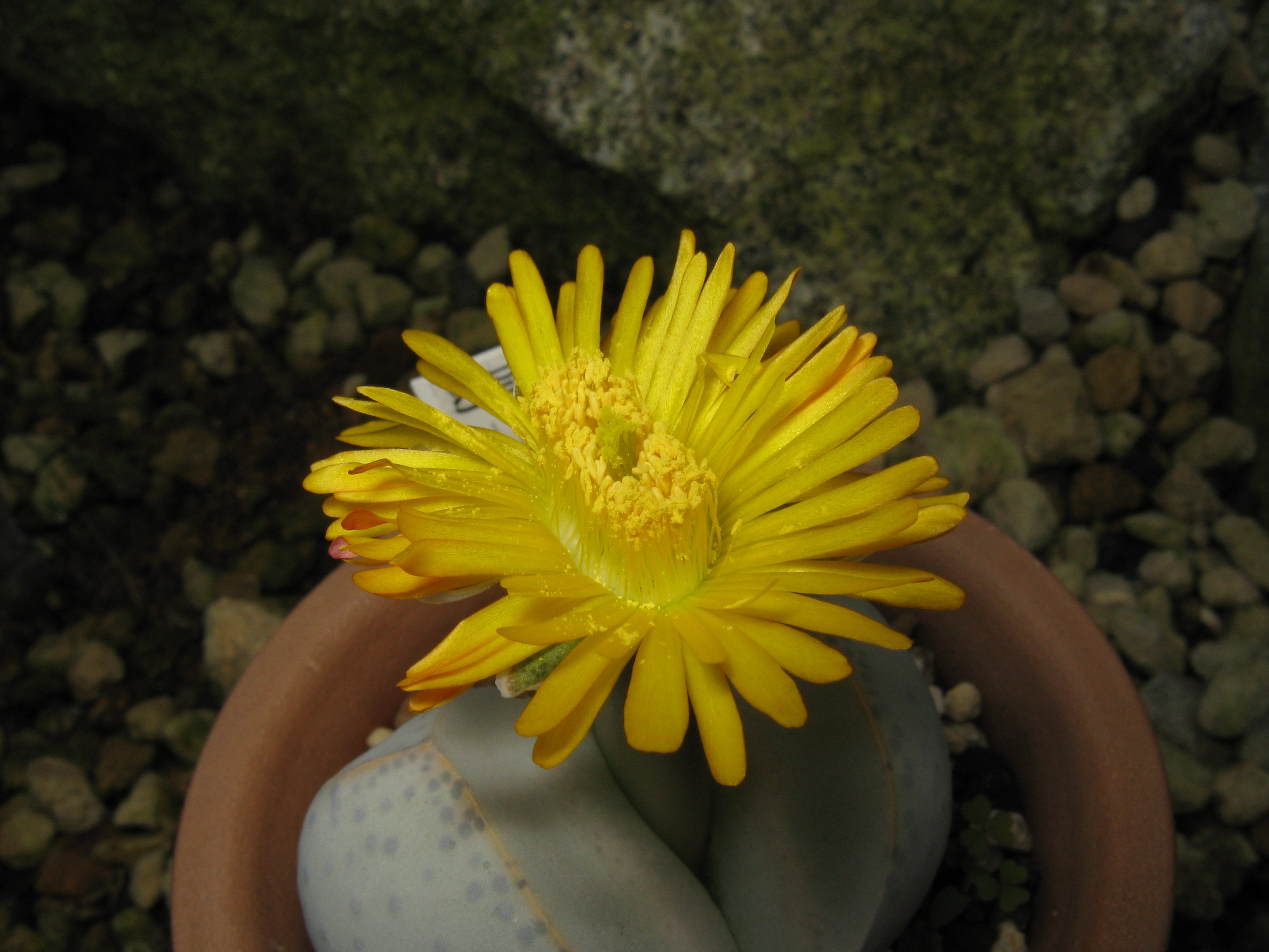 Dintheranthus wilmotianus